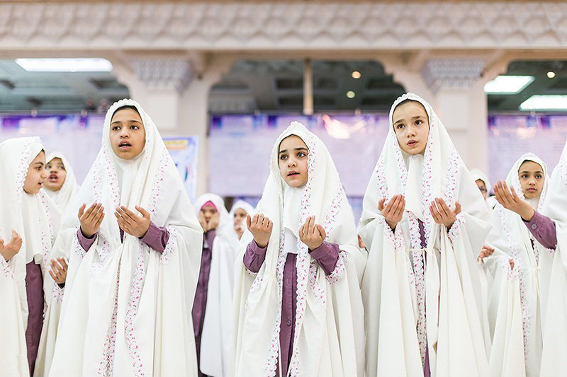 Worship celebration of 12,000 nine years old girl students in Tehran Mosalla.